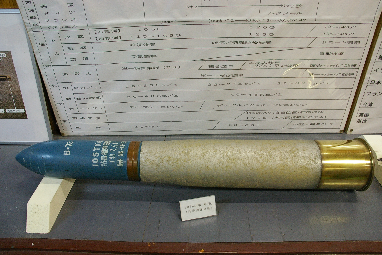 105mm HEP for type74 tank.